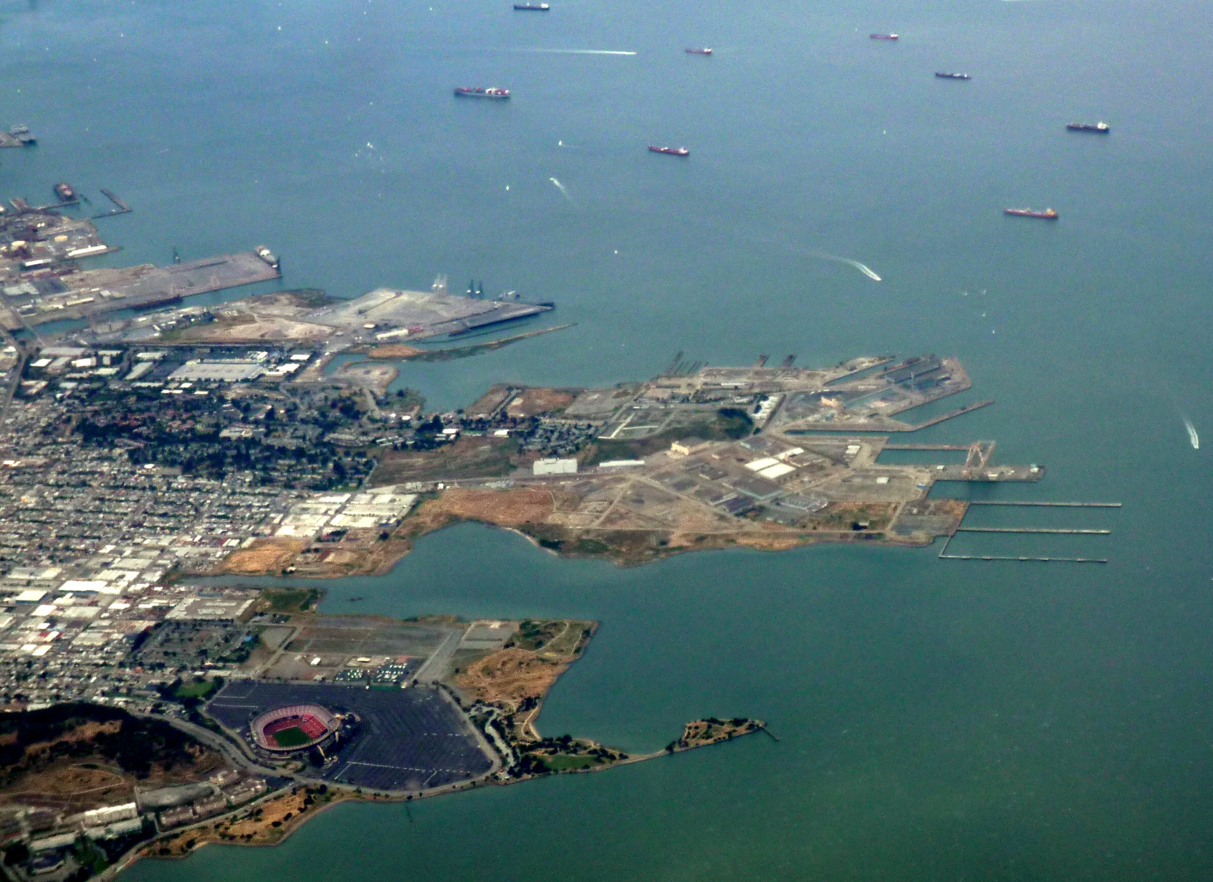 San Francisco Naval Shipyard aerial view in May 2010.